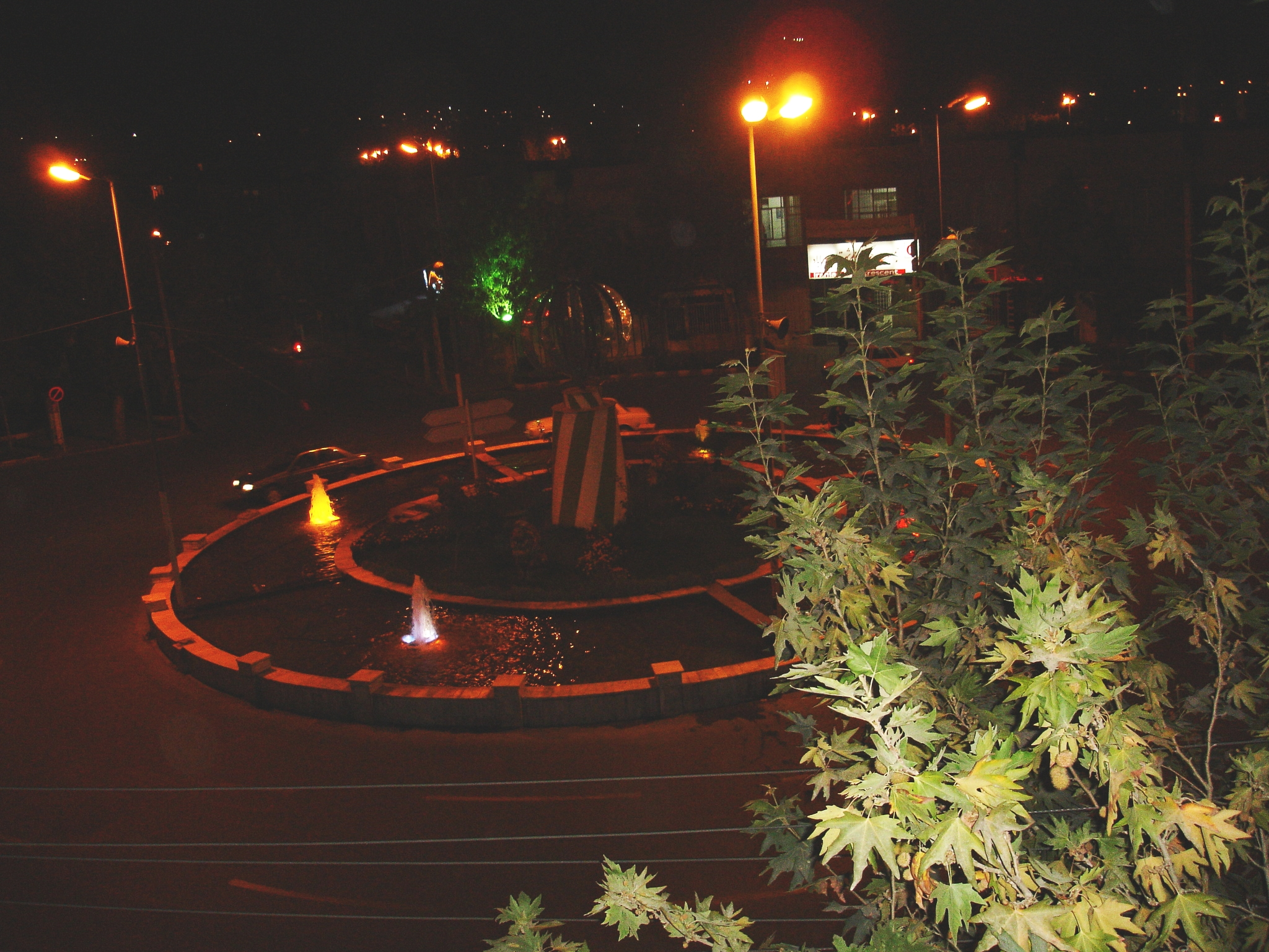 Circa Square at night